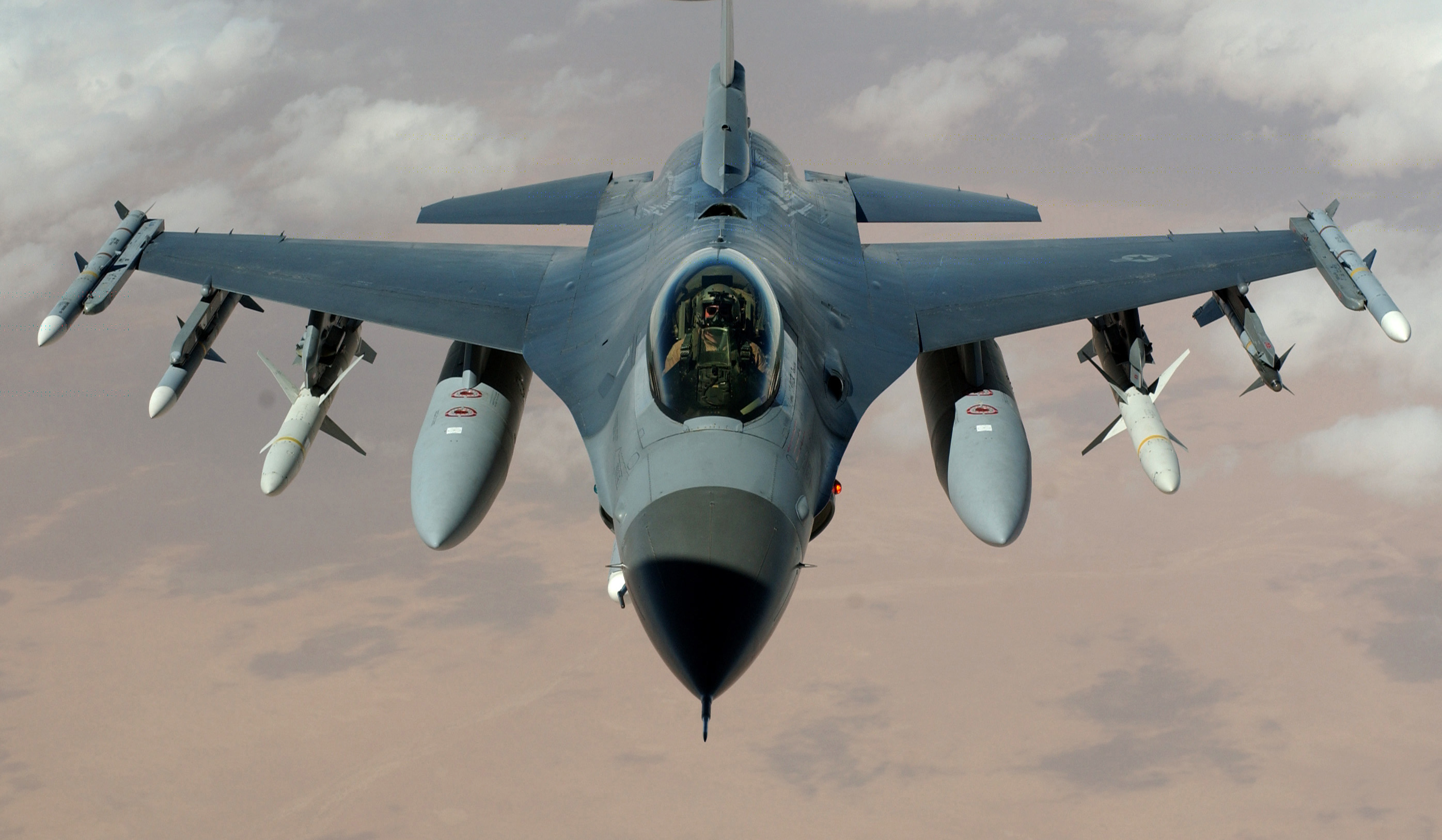 A U.S. Air Force F-16 Fighting Falcon flies a mission in the skies near Iraq on March 22, 2003 during Operation Iraqi freedom. OPERATION IRAQI FREEDOM -- An F-16 Fighting Falcon flies a mission in the skies near Iraq. The F-16s are from the 35th Fighter Wing "Wild Weasels", Misawa Air Base, Japan. (U.S. Air Force photo by Staff Sgt. Cherie A. Thurlby)